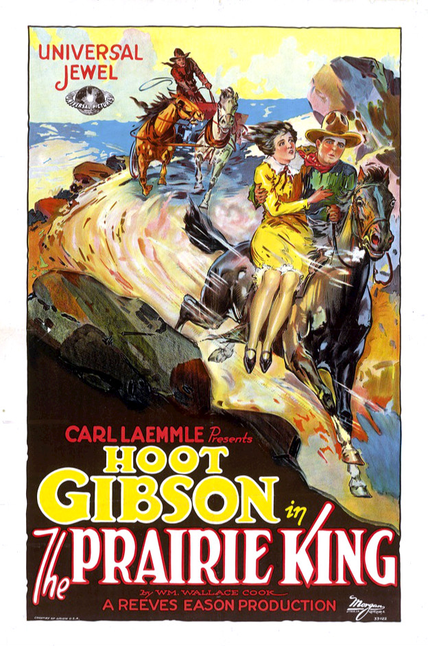 Poster for the 1927 film short The Prairie King.